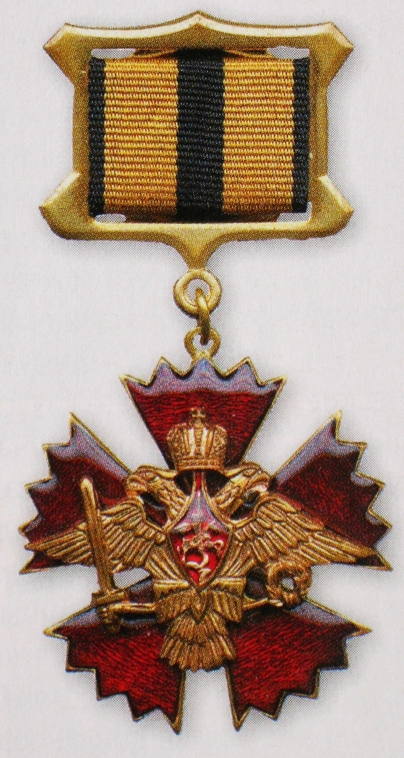 Medal of the GRU. 1998.